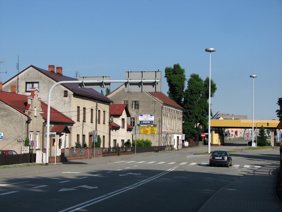 Chałupki–Bogumin border crossing